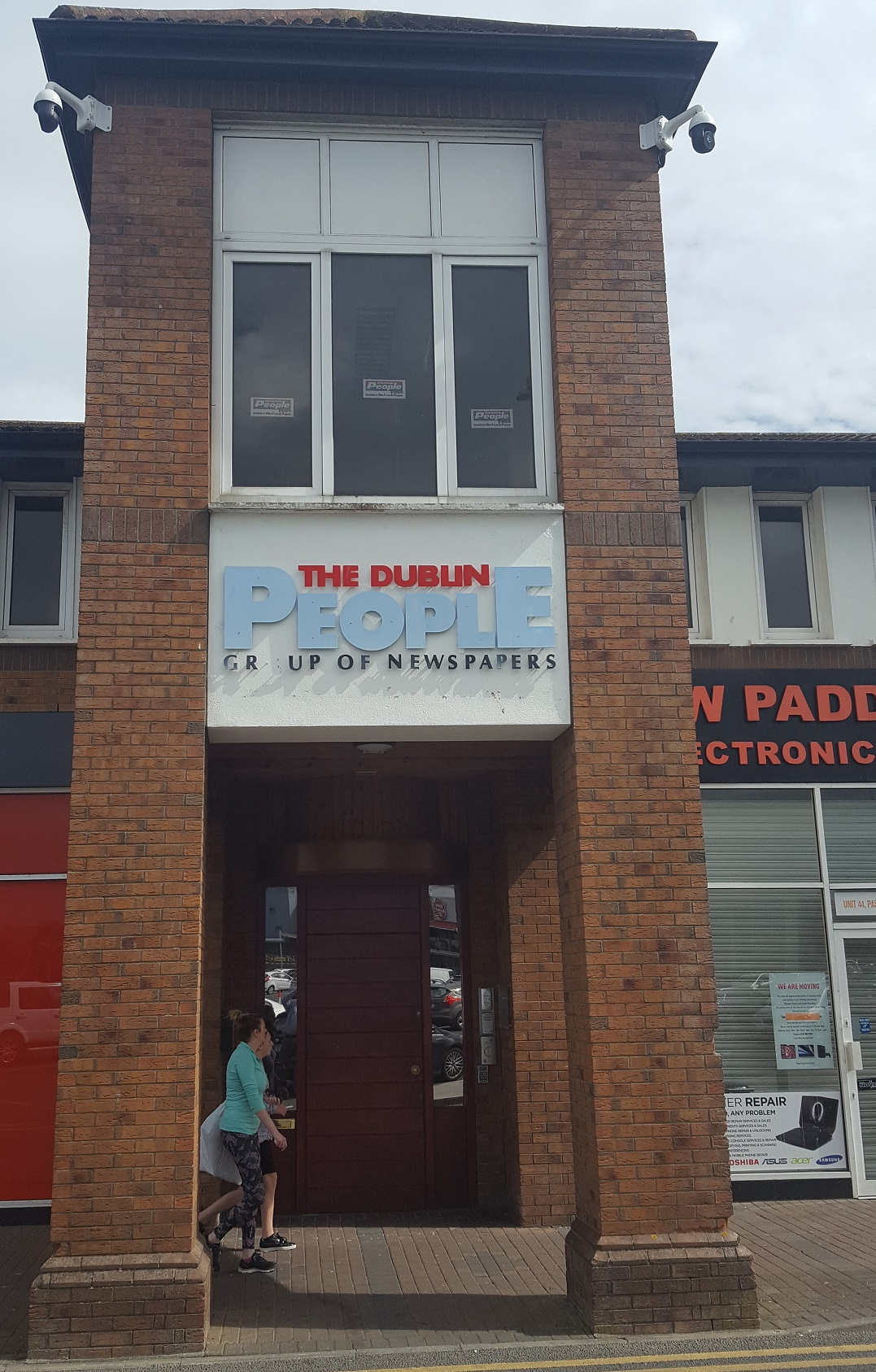 The Northside People headoffice was located in the Omni Shopping Centre in Santry